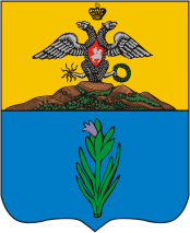 Mozdok (North Ossetia), coat of arms (1842)